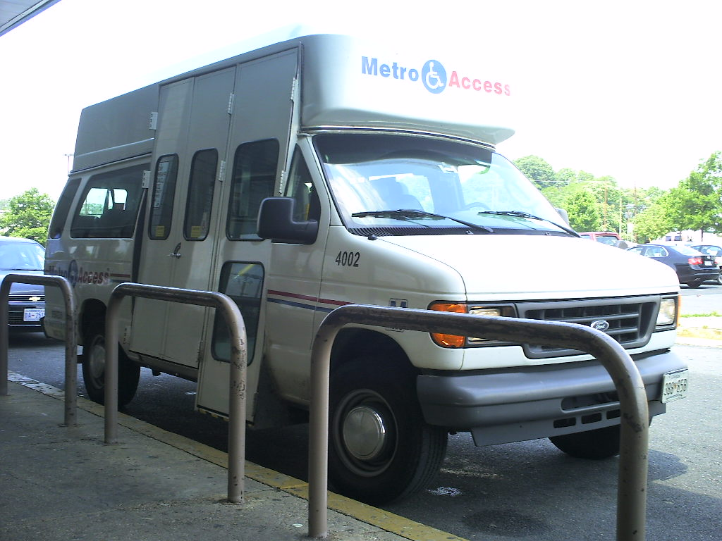 Photo of a Metro Access paratransit van